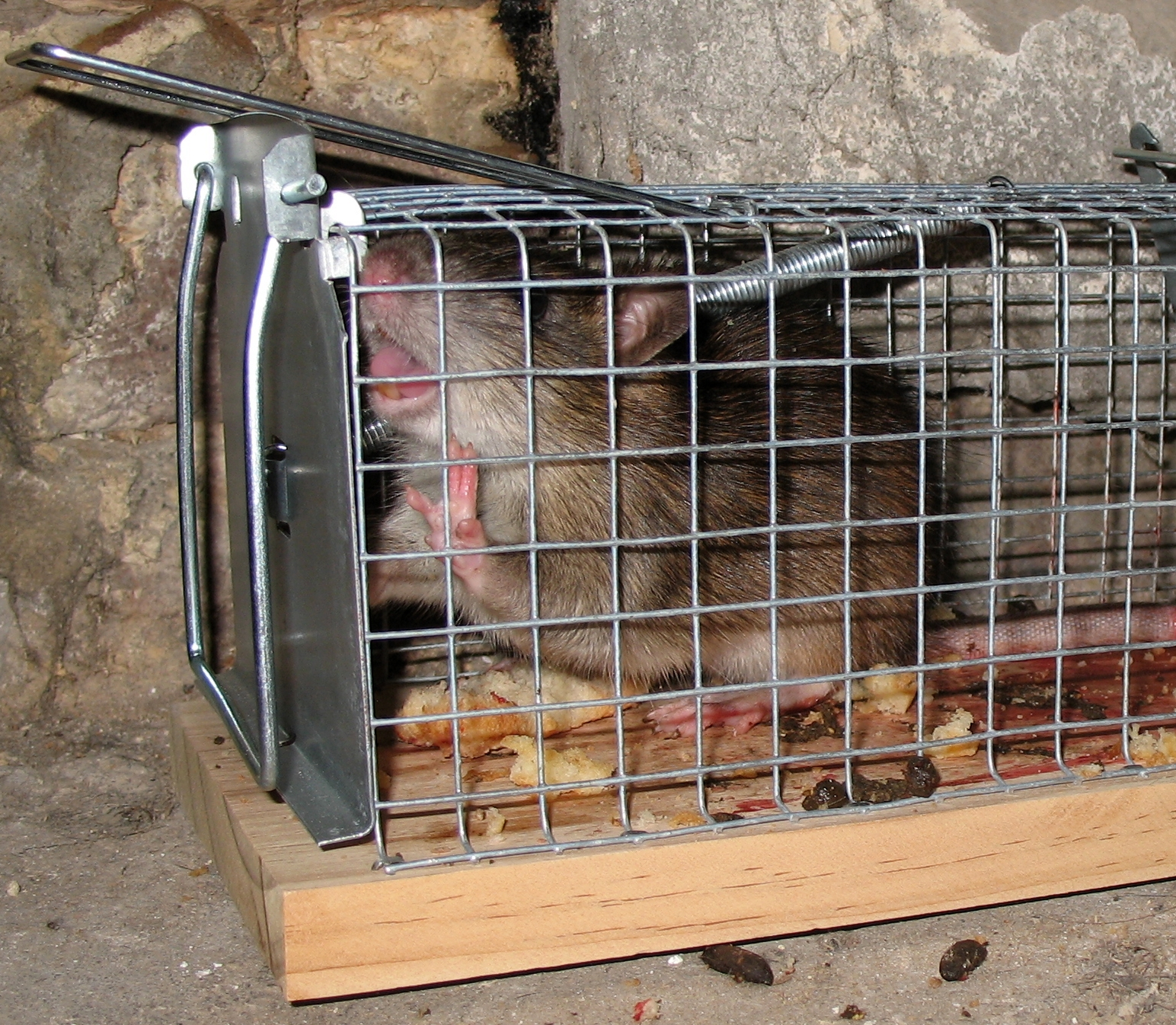 Rat trapped in a live-catch cage rat trap